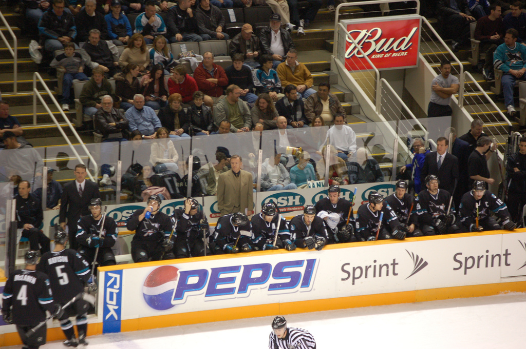 San Jose Sharks vs. Edmonton Oilers, Bench of the Sharks, HP Pavilion